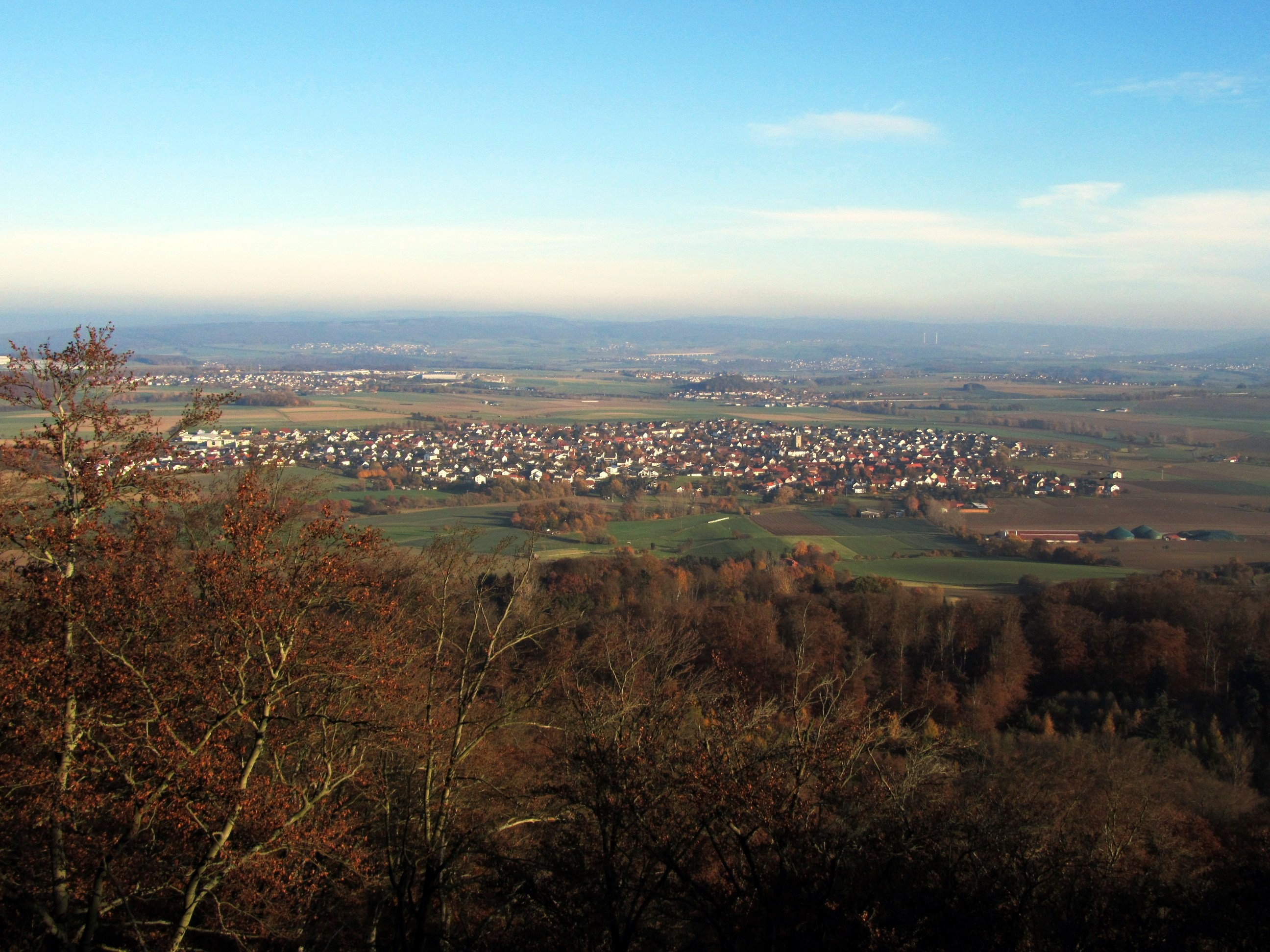 Germany / North Hesse: view of mountain bilstein at the village Besse